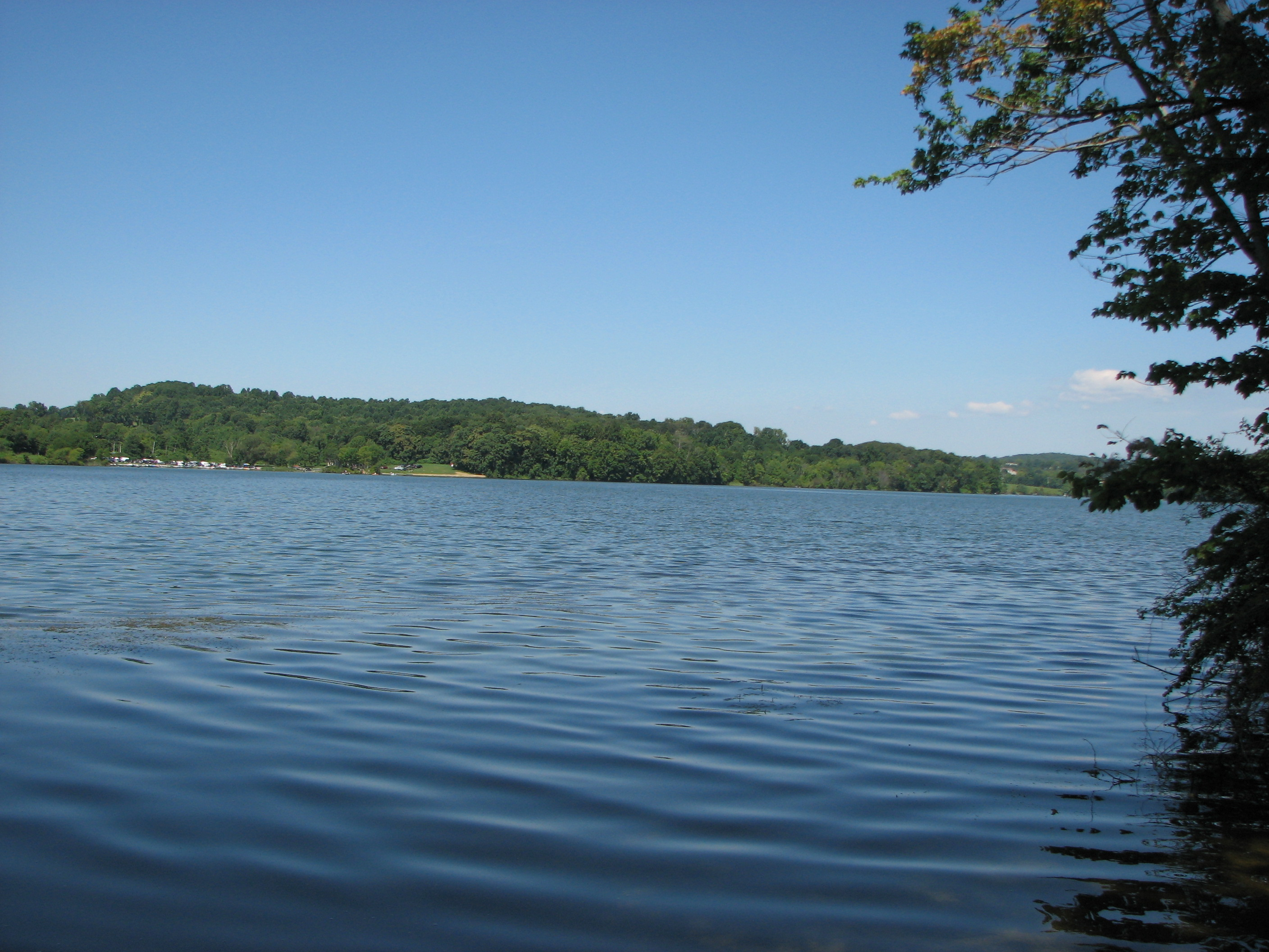 Marsh Creek Lake at Marsh Creek State Park, looking towards the West Launch Area.